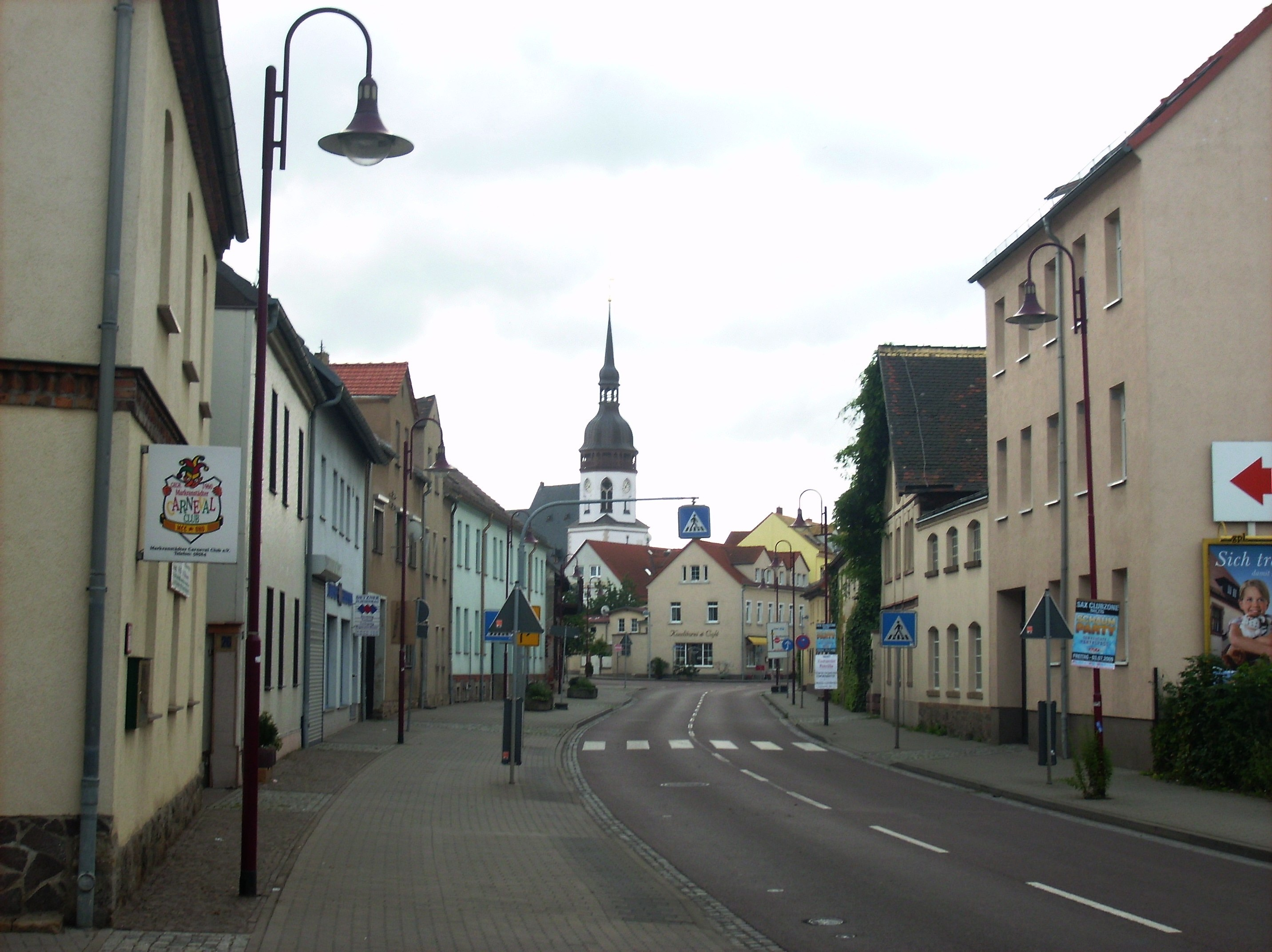 Schkeuditzer Strasse in Markranstädt (Leipzig district, Saxony) with St. Lawrence Church in the background